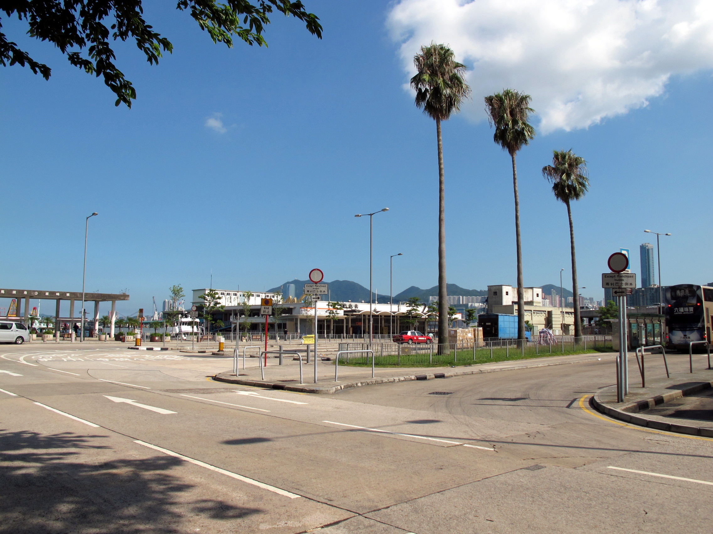 Kowloon City Pier Bus Terminal